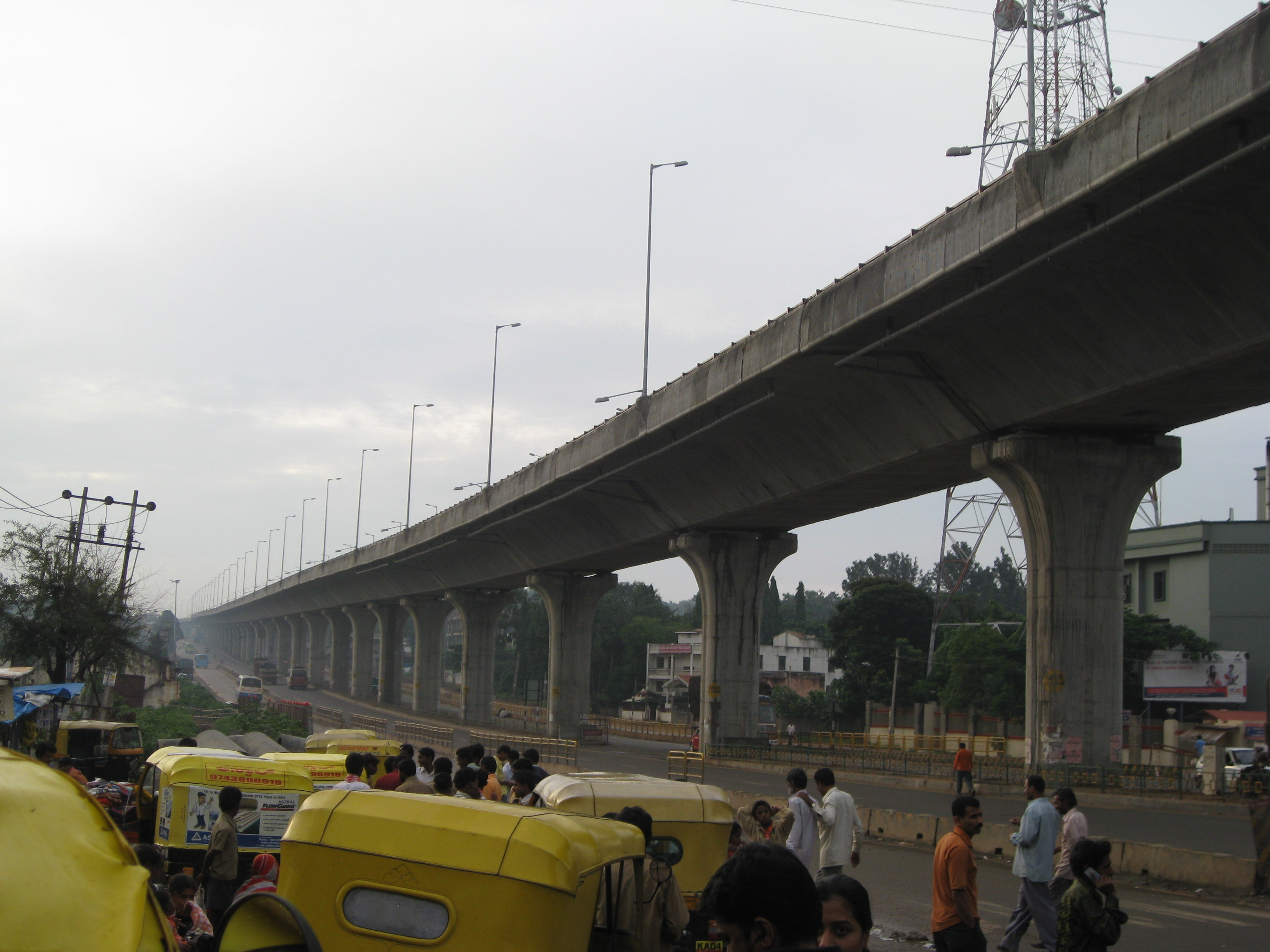 A view of the NBTPL project from Jalahalli cross on Tumkur Road (National Highway 48 - Former NH 4).